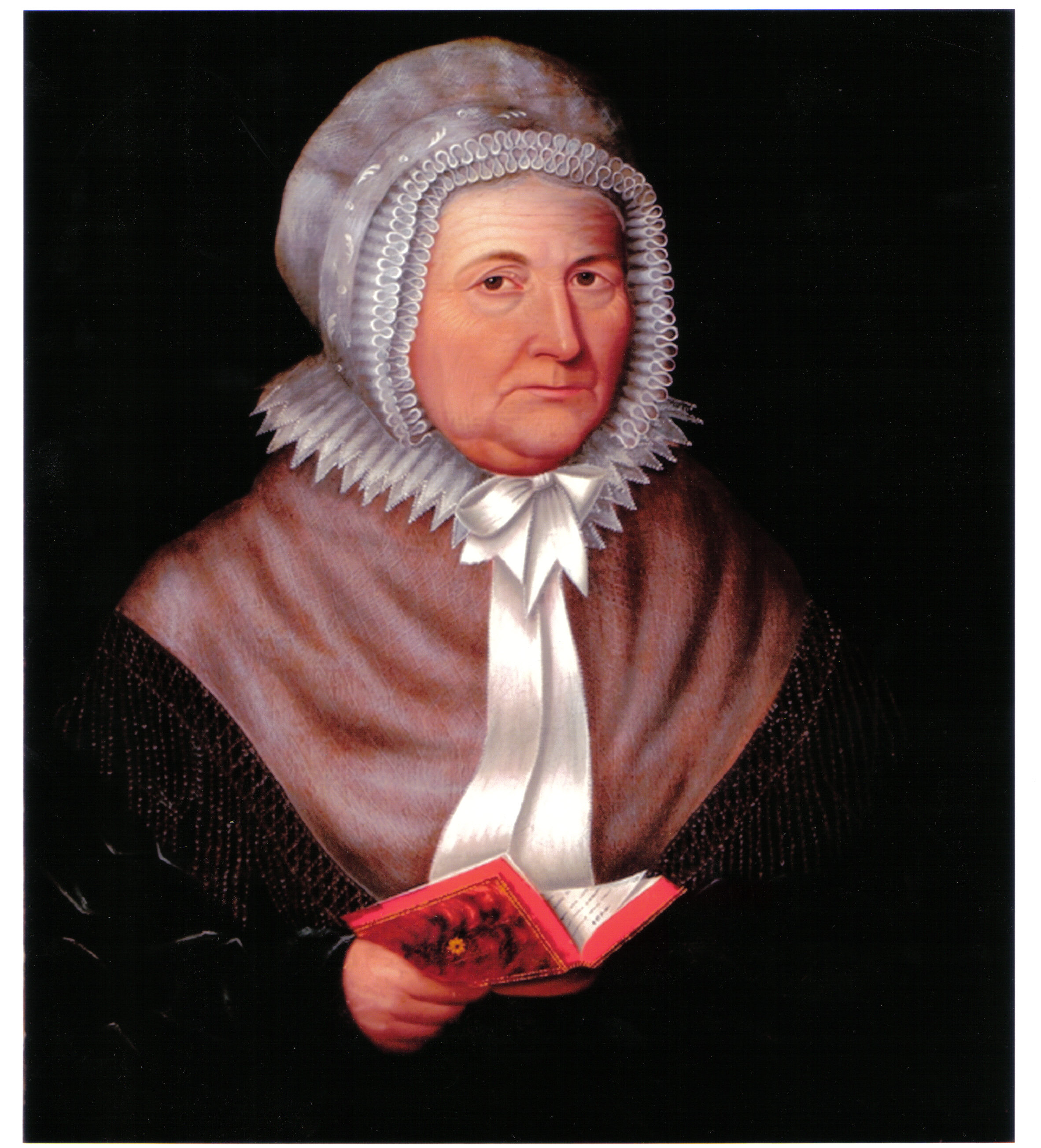 Portrait of Marie-François Globensky (née Brousseau-dit-Lafleur), settled, St-Eustache, Québec